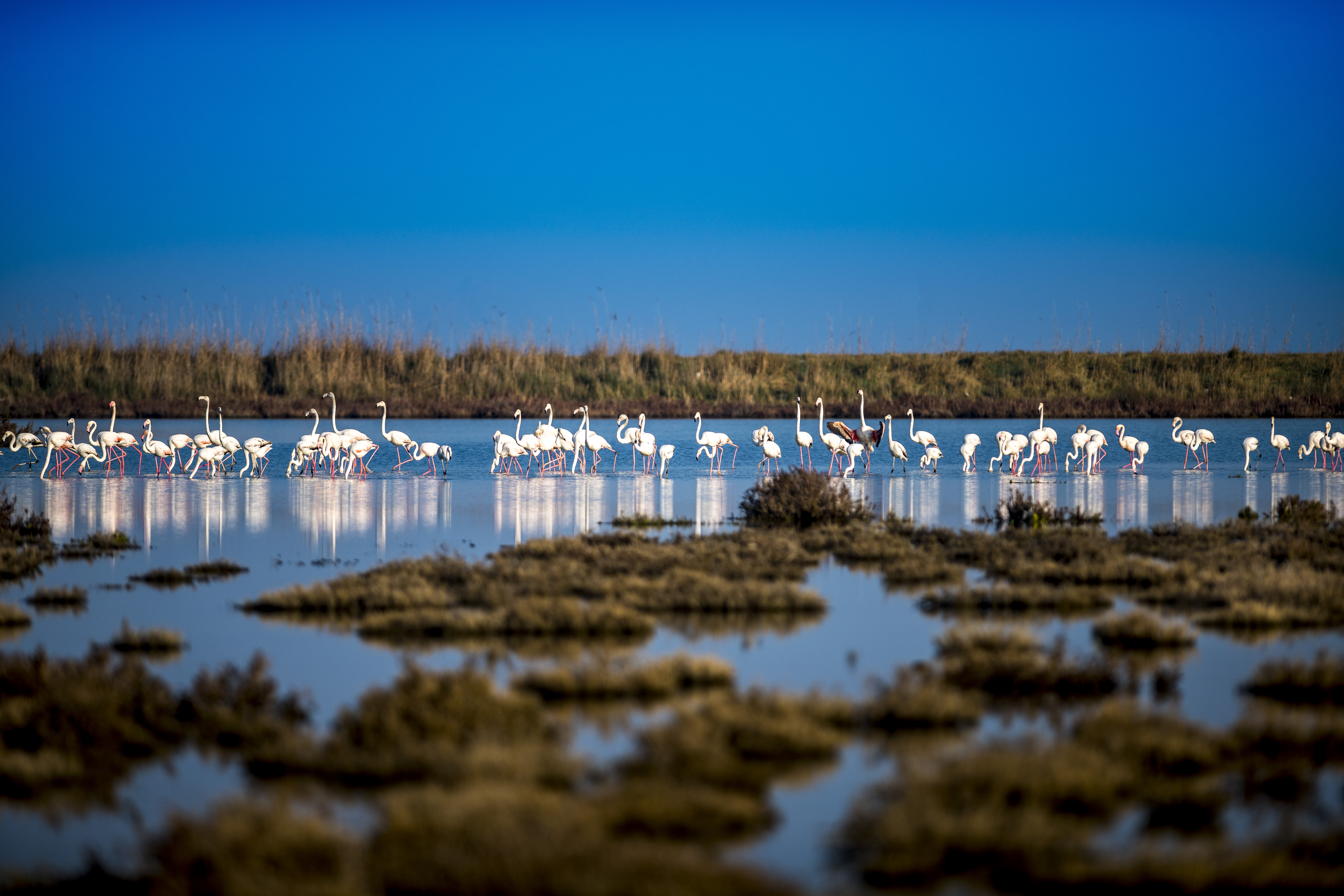 This is a photography of Natura 2000 protected area with ID GR2330009